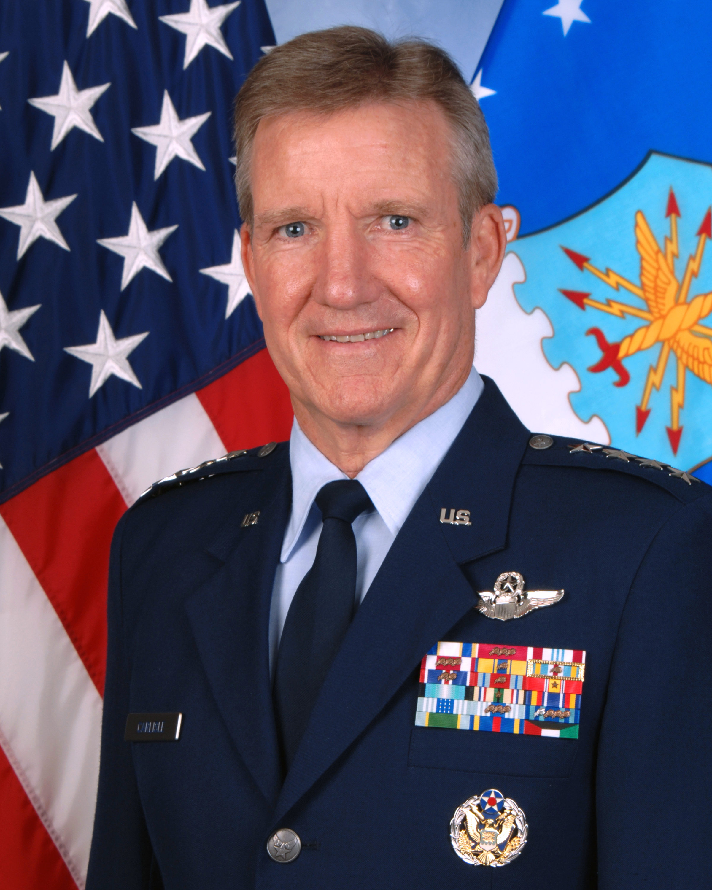 General Herbert J. Carlisle, Commander Air Combat Command; November 2014